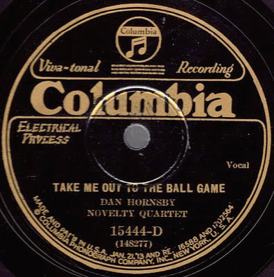 A photo of record titled "Take me out to the ball game" by Dan Hornsby and Novelty Quartet, likely from 1929